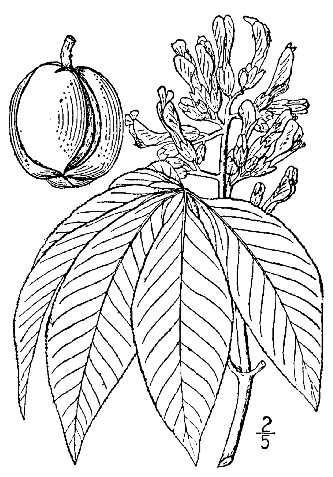 Yellow Buckeye. Drawing.